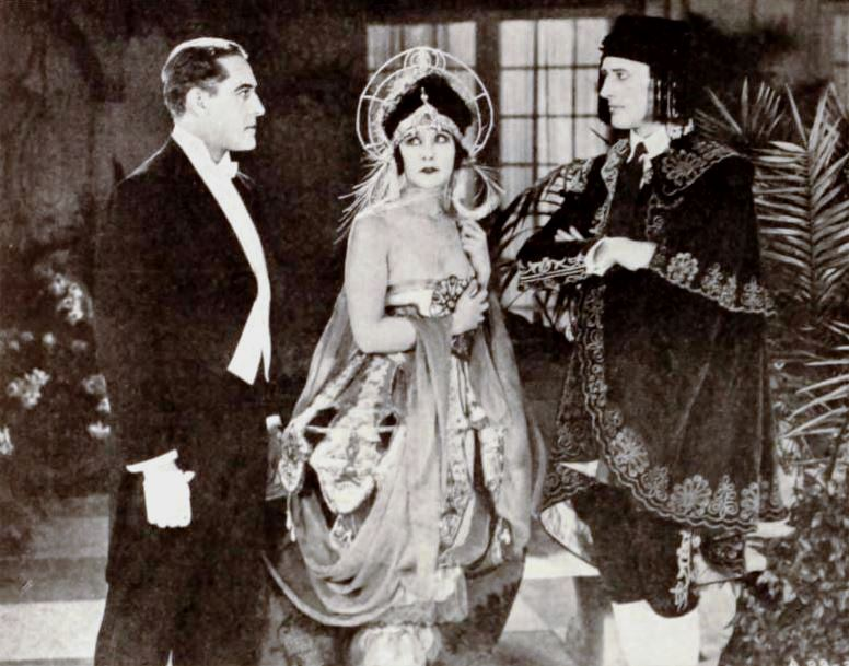 Still from the American drama film His House in Order (1920) with Holmes Herbert, Elsie Ferguson, and an unidentified actor, on page 78 of the February 28, 1920 Exhibitors Herald.